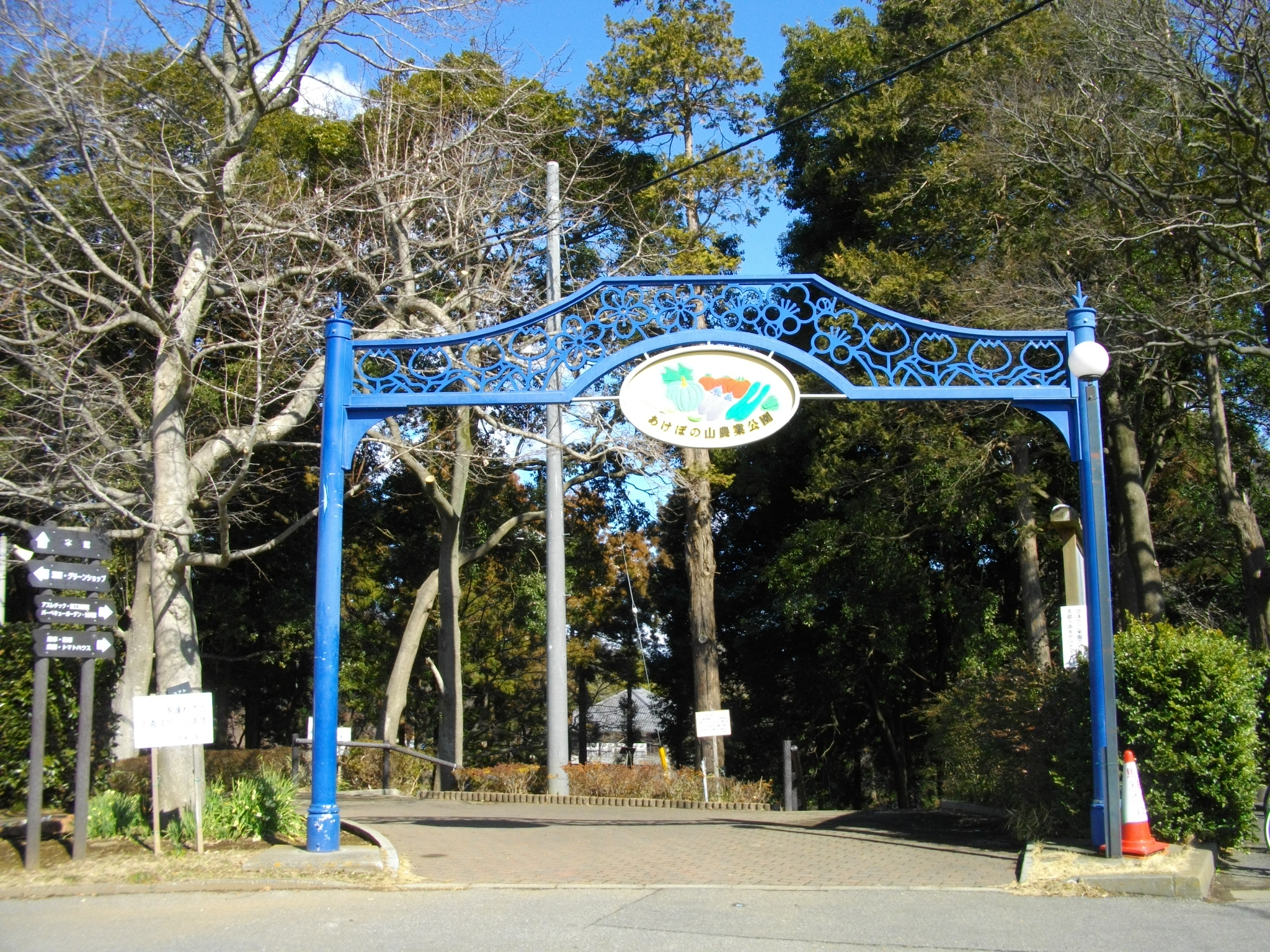 Akebonoyama Agricultural Park